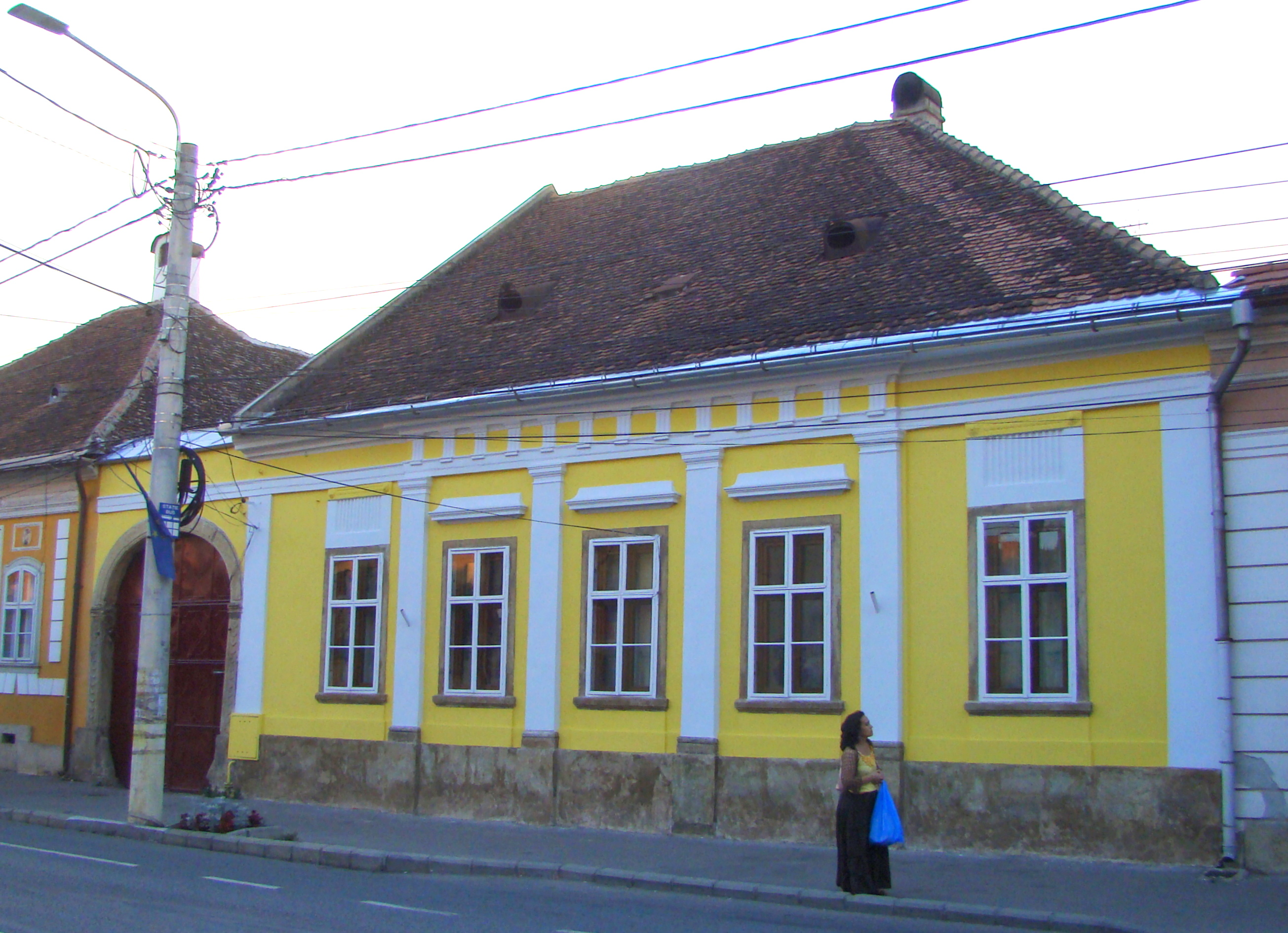 House, historic monument in Gherla, 1 Decembrie 1918 street, nr 8